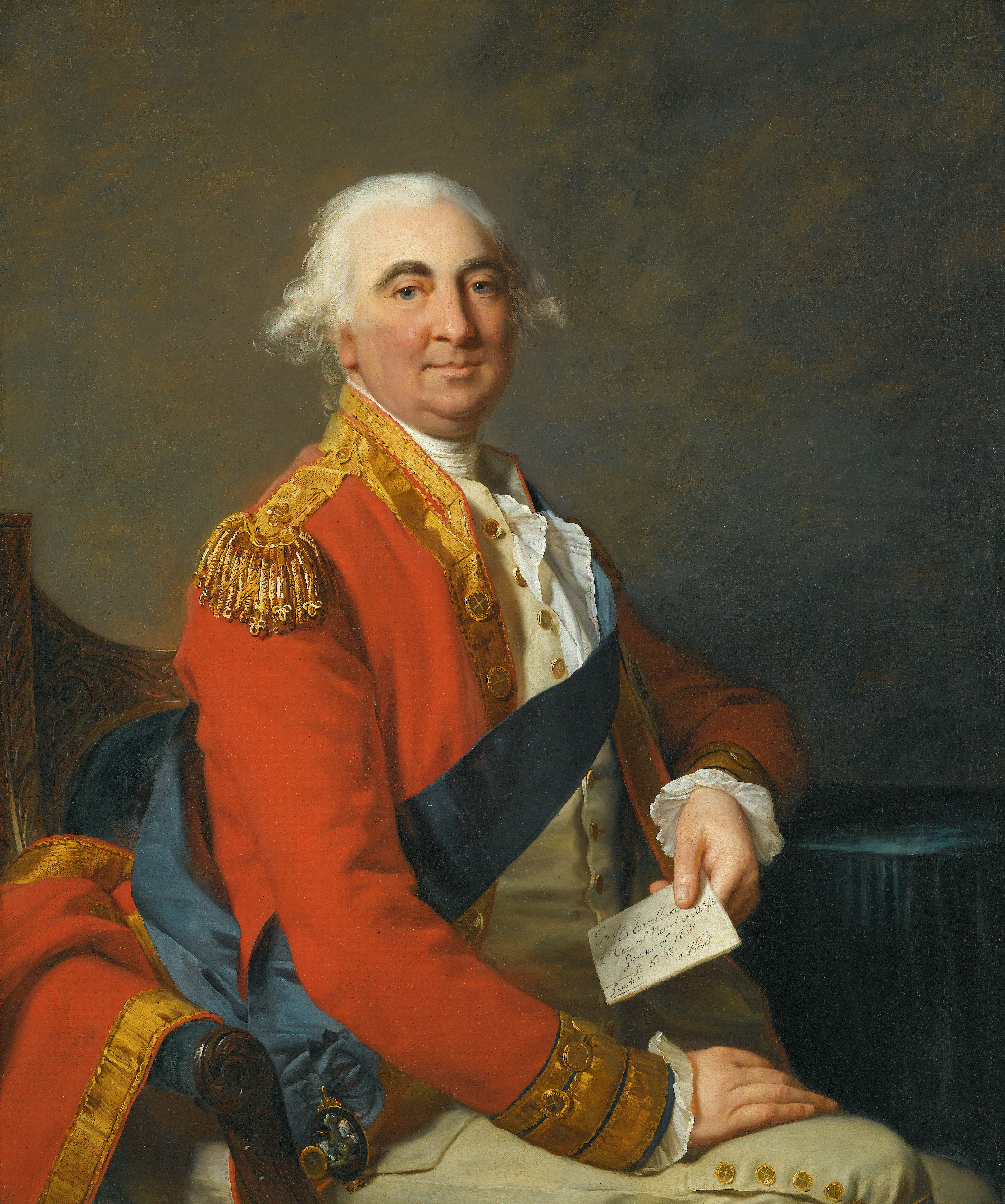 Portrait of William Petty (1737–1805)